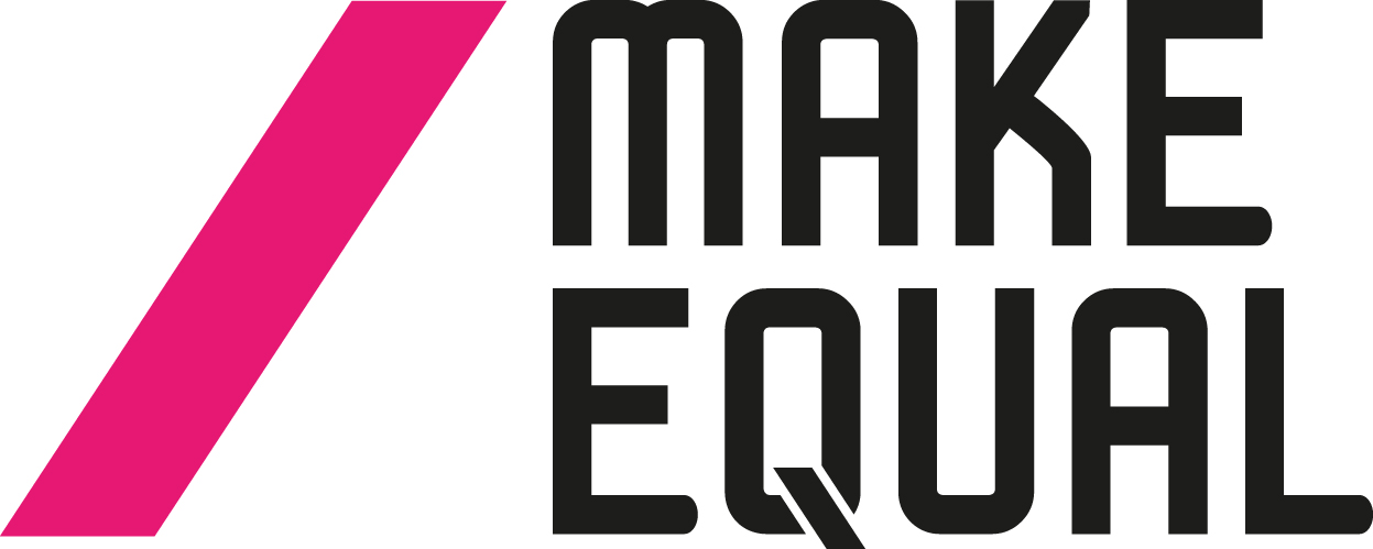 Make Equal logo